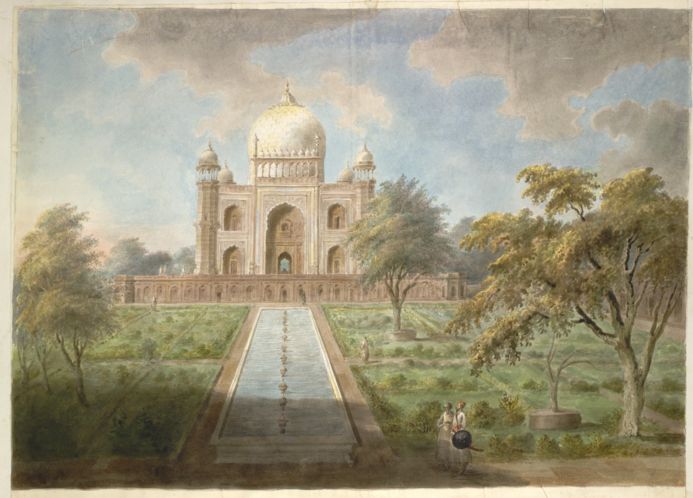 Watercolour of Safdar Jang's tomb from 'Views by Seeta Ram from Delhi to Tughlikabad Vol. VII' produced for Lord Moira, afterwards the Marquess of Hastings, by Sita Ram between 1814-15. Marquess of Hastings, the Governor-General of Bengal and the Commander-in-Chief (r. 1813-23), was accompanied by artist Sita Ram (flourished c.1810-22) to illustrate his journey from Calcutta to Delhi between 1814-15. An idealised view of the tomb of Safdar Jang showing the garden and water channel. Nawab Safdar Jang (r.1739-53) was the governor of Awadh during the period of Mughal Emperor Ahmad Shah (r. 1748-54). Safdar Jang's body was moved to Delhi where his son Nawab Shuja ud-Daula (r.1753-75) built a tomb in 1753-54 based on the model of Humayun's tomb. The basic architectural style included a square plan tomb centered in a char bagh garden complex. Inscribed below: 'Suftur Jung's Tomb.'